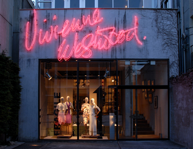 Vivienne Westwood Flagship Store in Aoyama, Tokyo, Japan